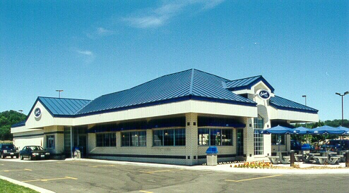 For use in the Culver's article.